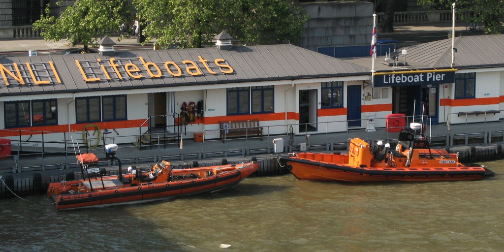 Two E Class lifeboats moored at tower Lifeboat Station on the River Thames in London. On the left is E-002 Olivia Laura Dearne from the original batch of six boats, on the right is E-07 Hurley Burly, the prototype of the new Mark 2 version.